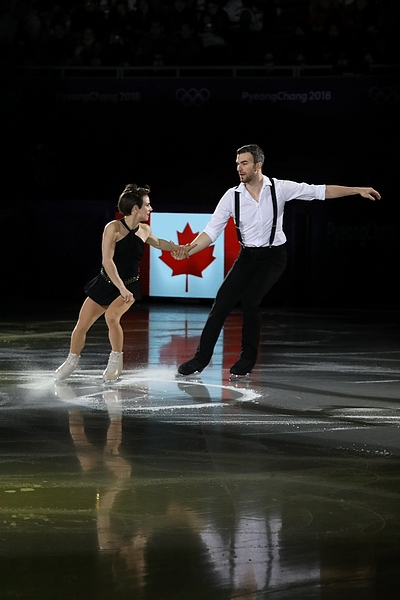 Gala exhibition at the 2018 Winter Olympics